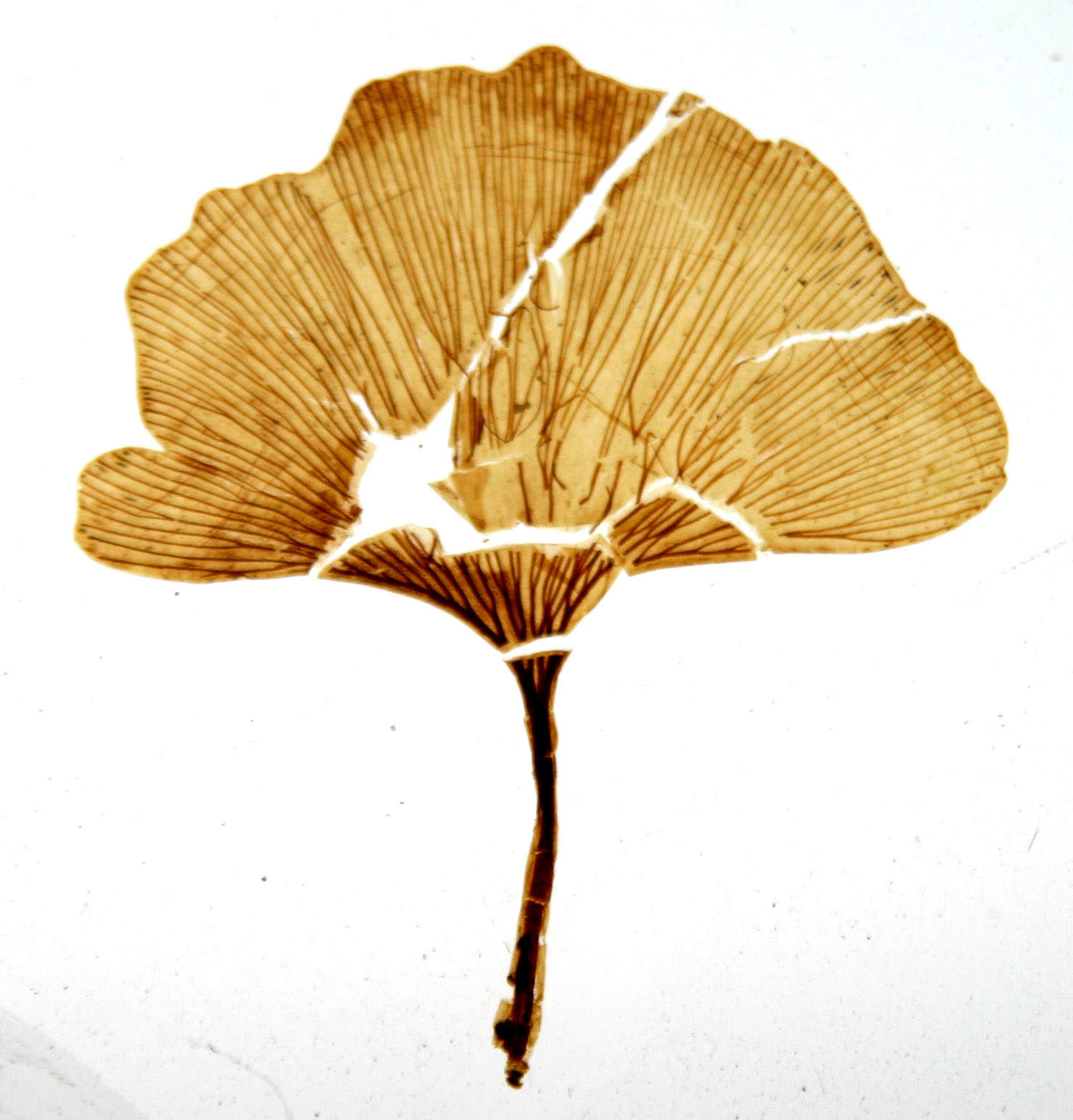 Fossil leaf of Ginkgo adiantoides mounted in glass from the middle Miocene, Columbia River Basalt Group on the Musselshell River, near Wieppe, Idaho. Specimen at the University of Idaho